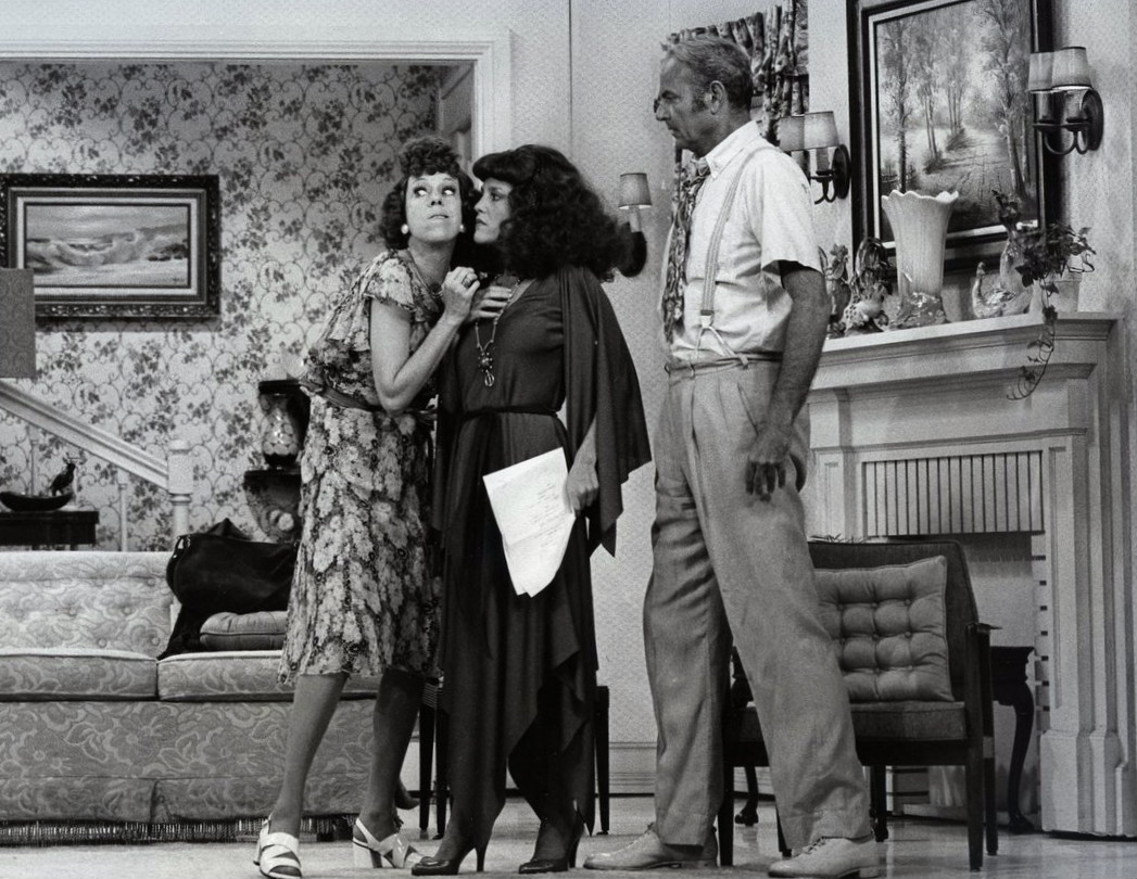 Photo of Carol Burnett as Eunice Higgins, Madeline Kahn as a drama teacher and Harvey Korman as Eunice's husband, Ed Higgins. Eunice has hired a faded actress (Kahn) to coach he for her role in a local Little Theater production. These skits from The Carol Burnett Show evolved into a comedy television series called Mama's Family, with Burnett show regular Vicki Lawrence in the starring role as "Mama". Carol Burnett made periodic appearances on the show as her character, Eunice.